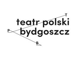 Logo TP